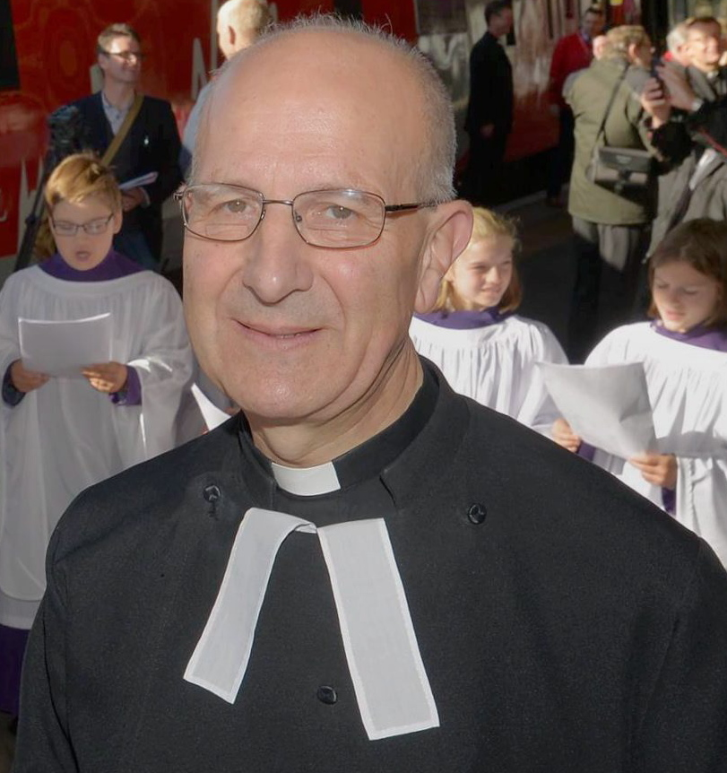 The Very Reverend Michael Sadgrove, Dean of Durham Cathedral, with Virgin Trains East Coast MD David Horne and locomotive 91114 at Newcastle Central railway station. Original description: Virgin Trains Managing Director David Horne with the Dean of Durham Michael Sadgrove. Durham Cathedral Choir perform on the platform at Newcastle station following the official blessing ceremony.